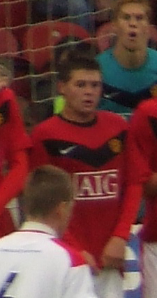 Oliver Norwood defends a free-kick